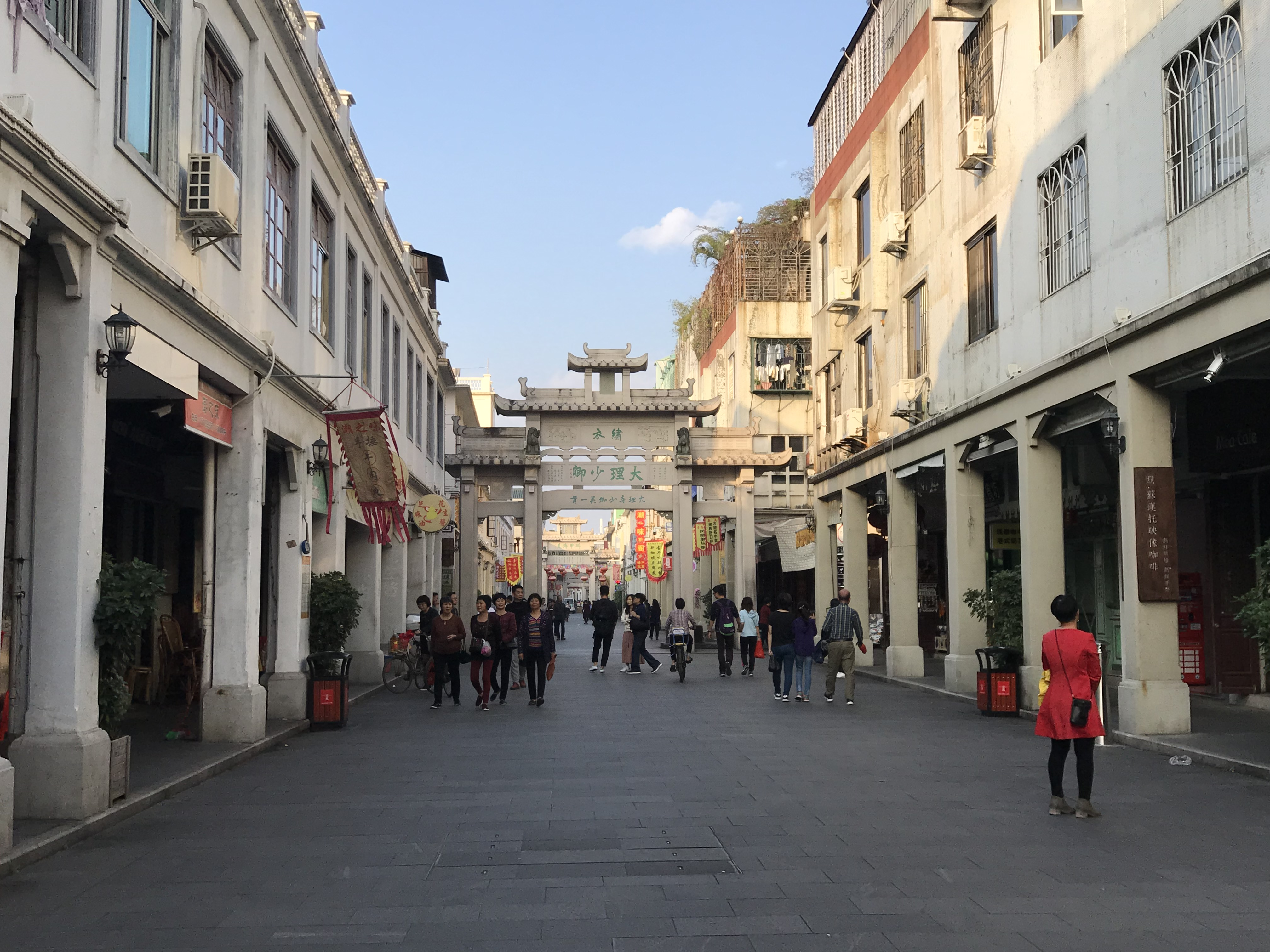 Paifang Street of Chaozhou